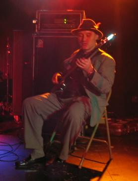 L to R: Liz Carter, Mark Sanders (drums), Jah Wobble